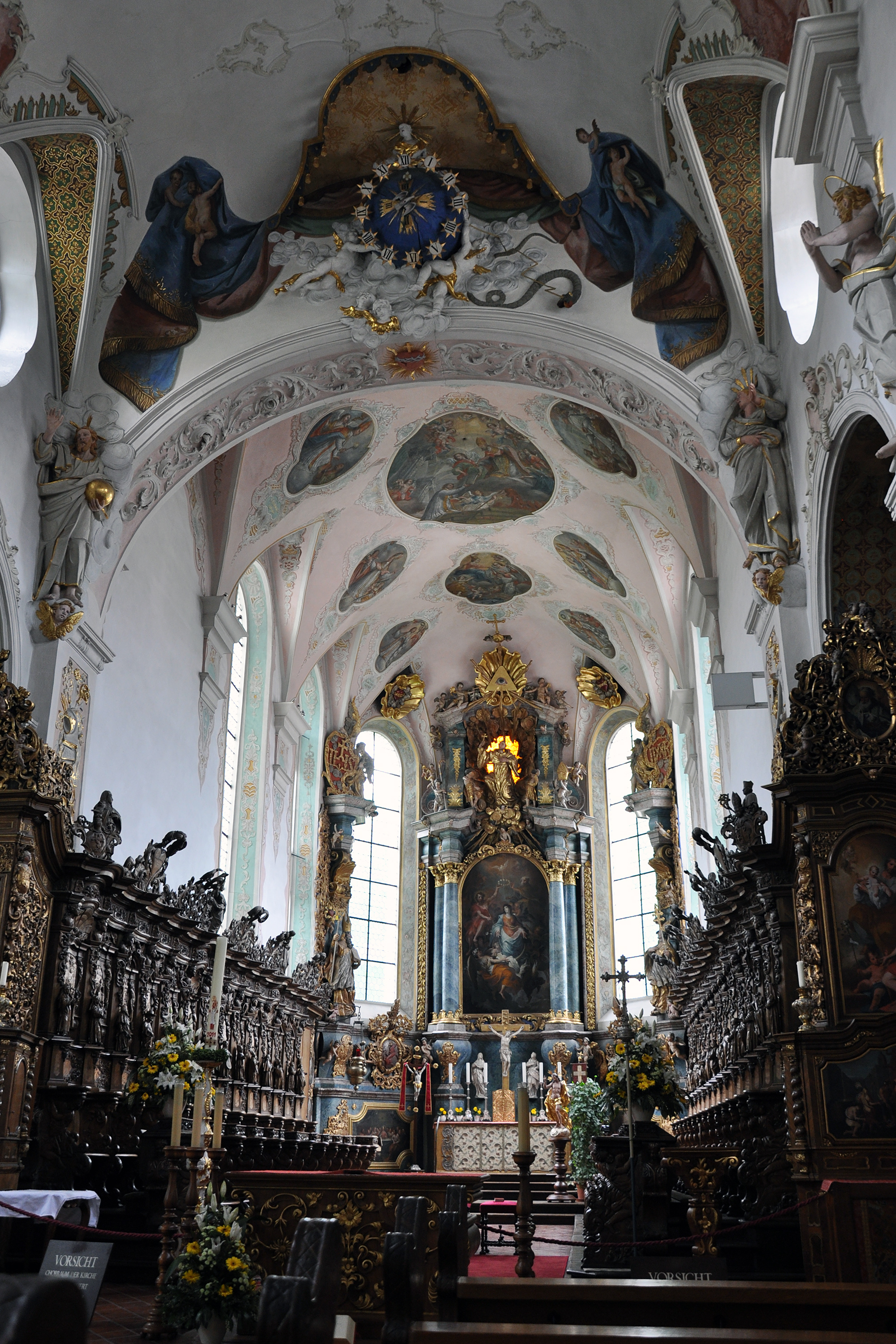 The choir of Church of St. Magnus (Kloster Schussenried) in the town of Bad Schussenried in Upper Swabia in Germany